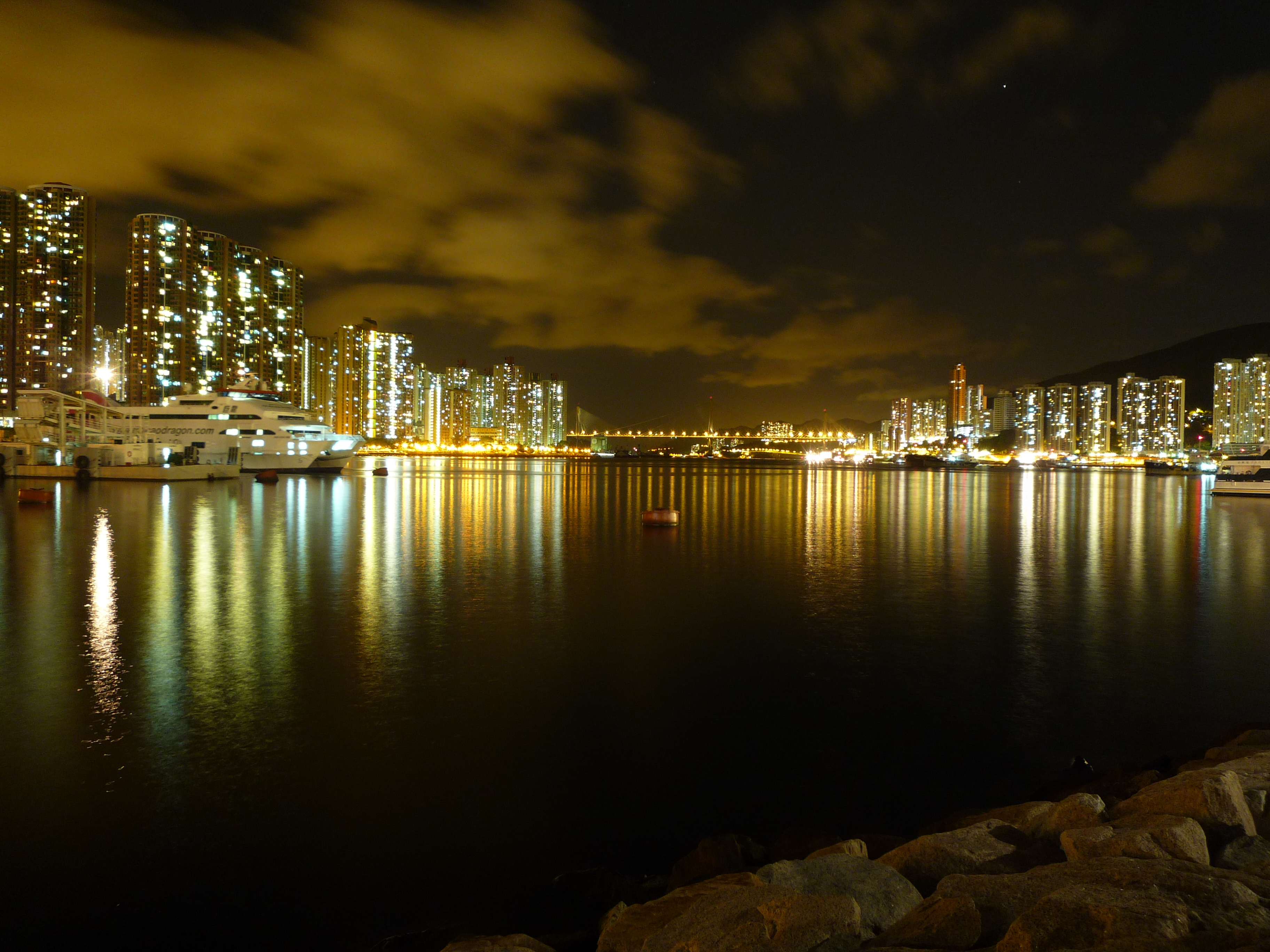 Taken at Tsuen Wan Riviera Park looking at Tsing Yi.